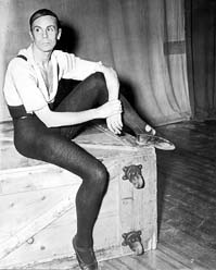 After a train journey to St. Petersburg for a 1942 performance, dancer Kari Karnakoski relaxes on a crate the traveling Ballet Russe de Monte-Carlo used to transport lights, furniture and other equipment.